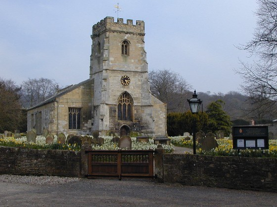 All Saints' parish church, Settrington, North Yorkshire, seen from the west